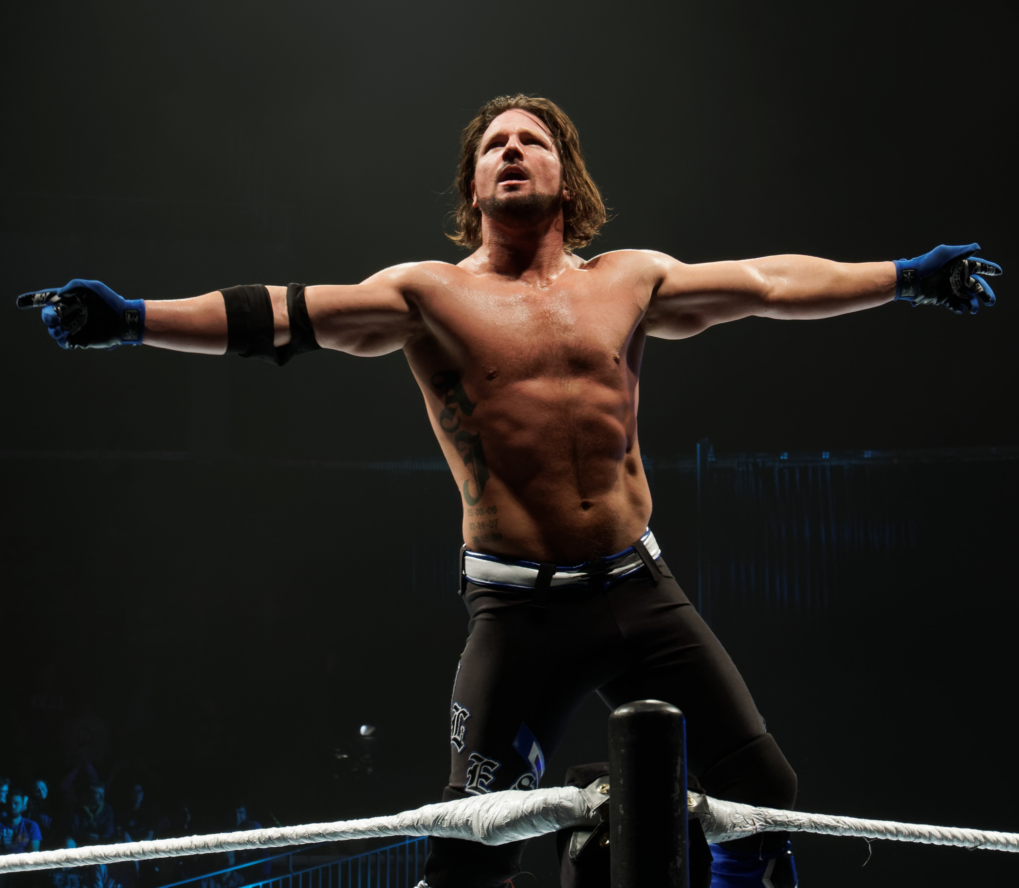 AJ Styles in April 2016